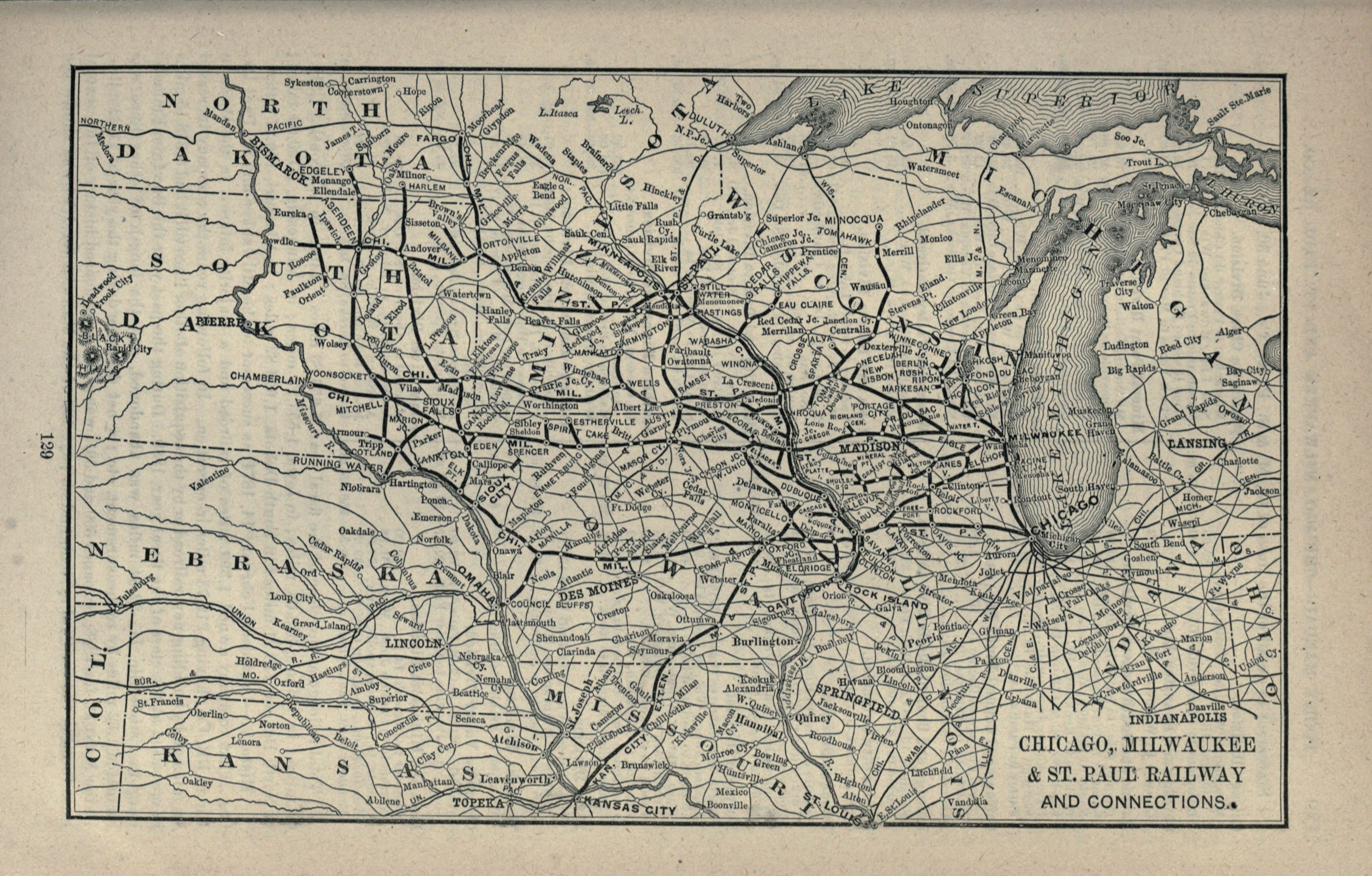 Chicago, Milwaukee and St. Paul Railway